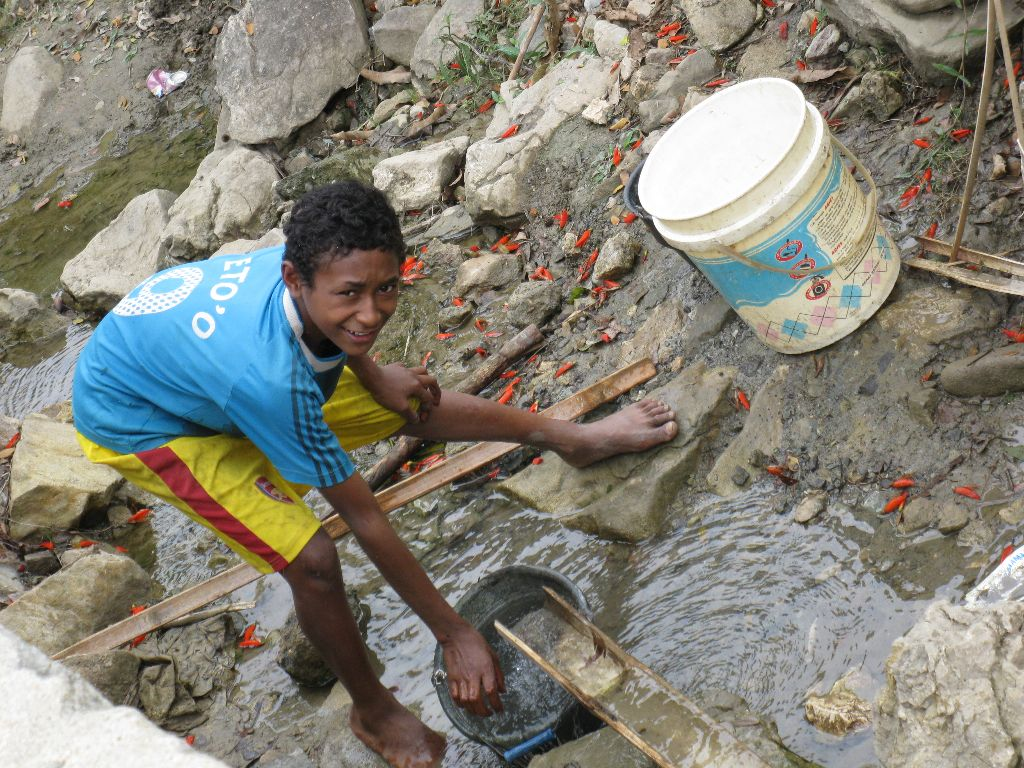 Drinking water in Soibada, East Timor